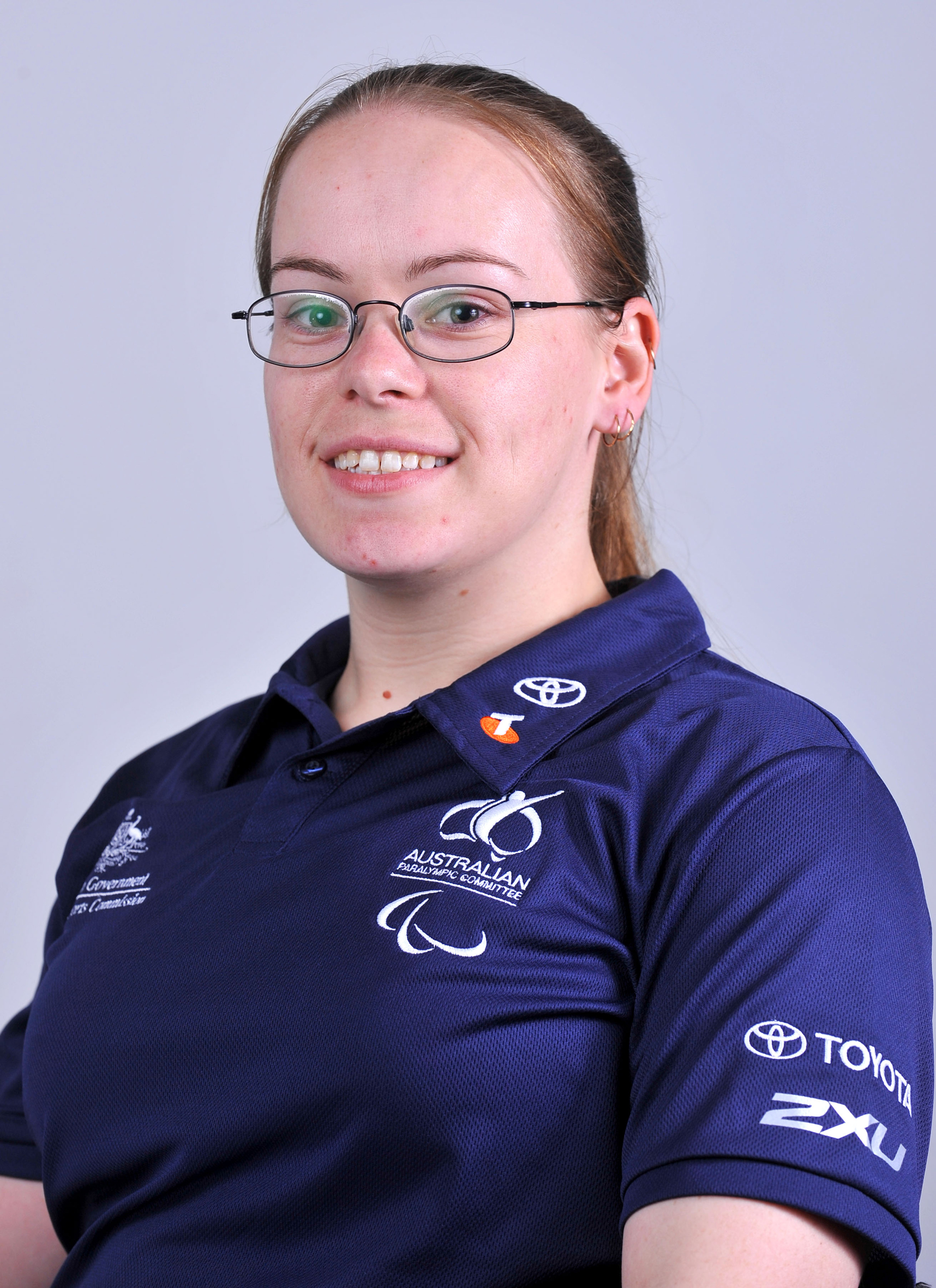 Portrait of Australian wheelchair basketballer Katie Hill, 2012 Australian Paralympic (shadow) Team athlete